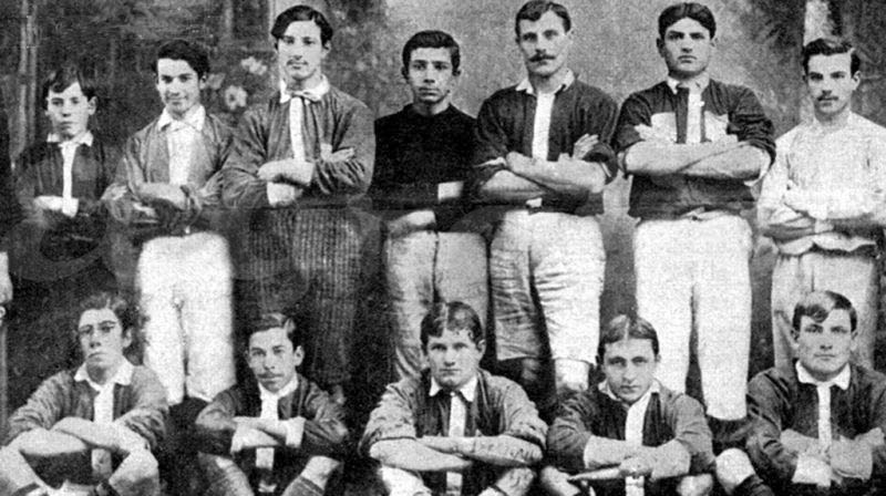 Earlier Argentinos Juniors football team